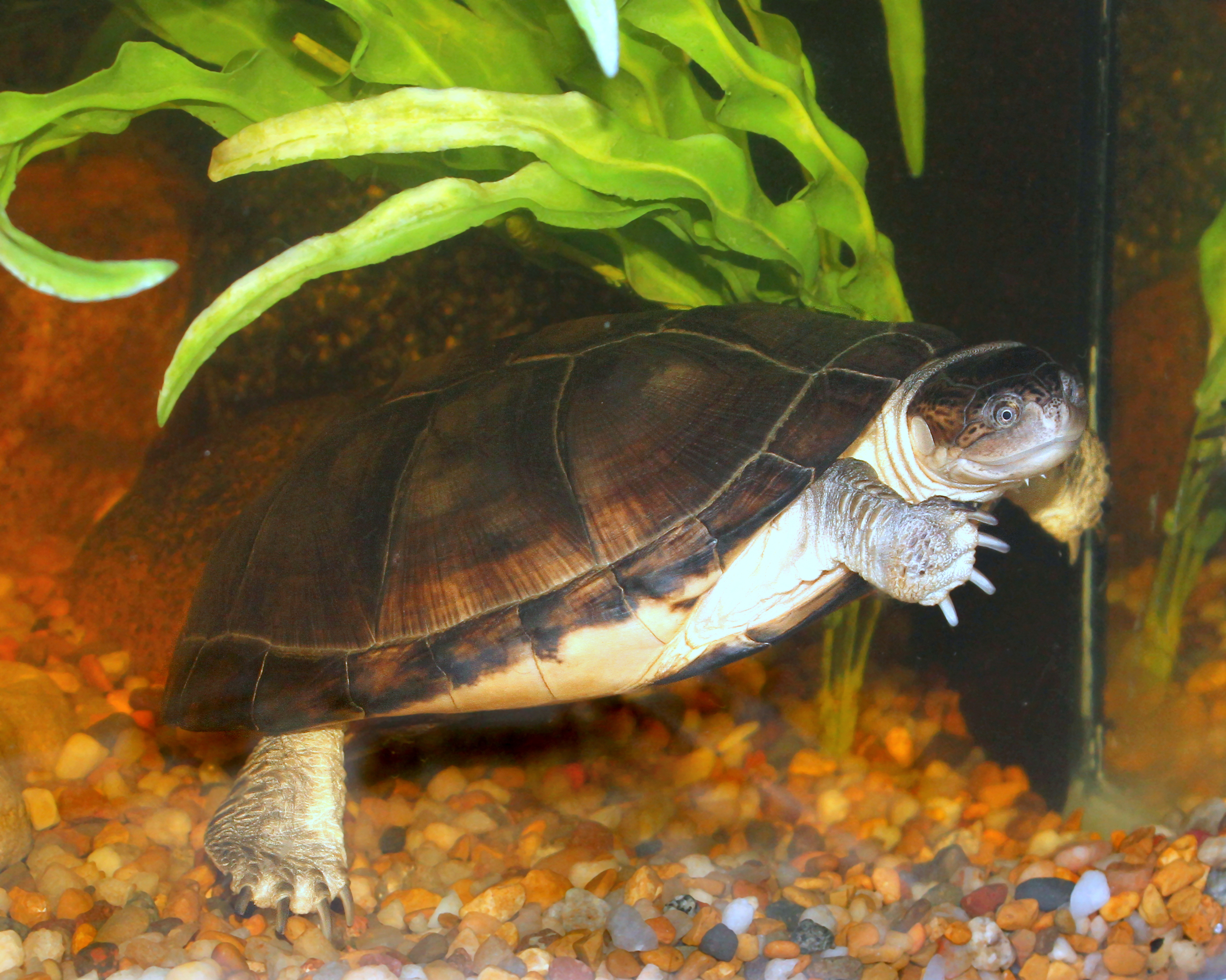 Captive specimen at the Cincinnati Zoo.